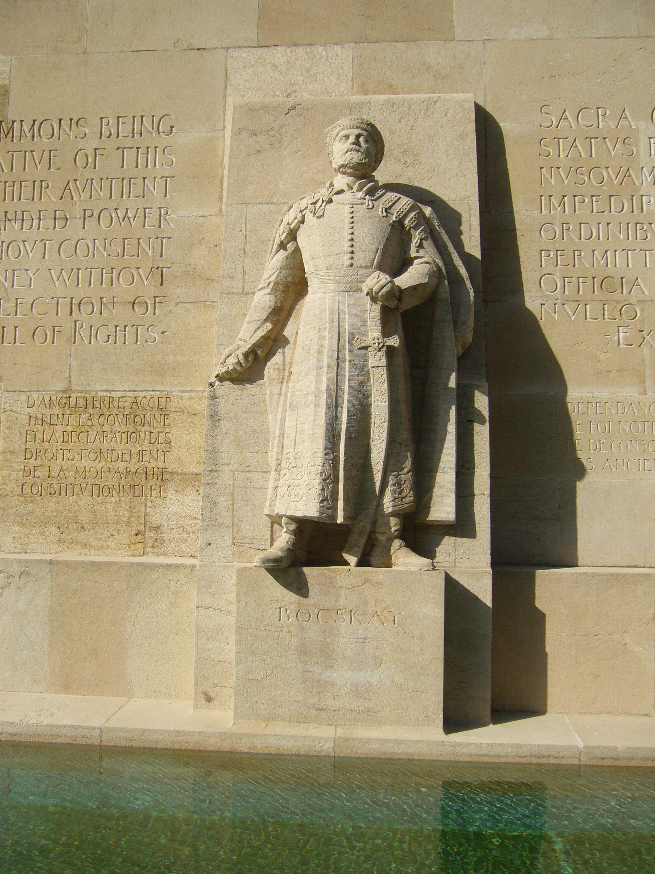 Relief of István Bocskay on the Reformation Wall, Geneva